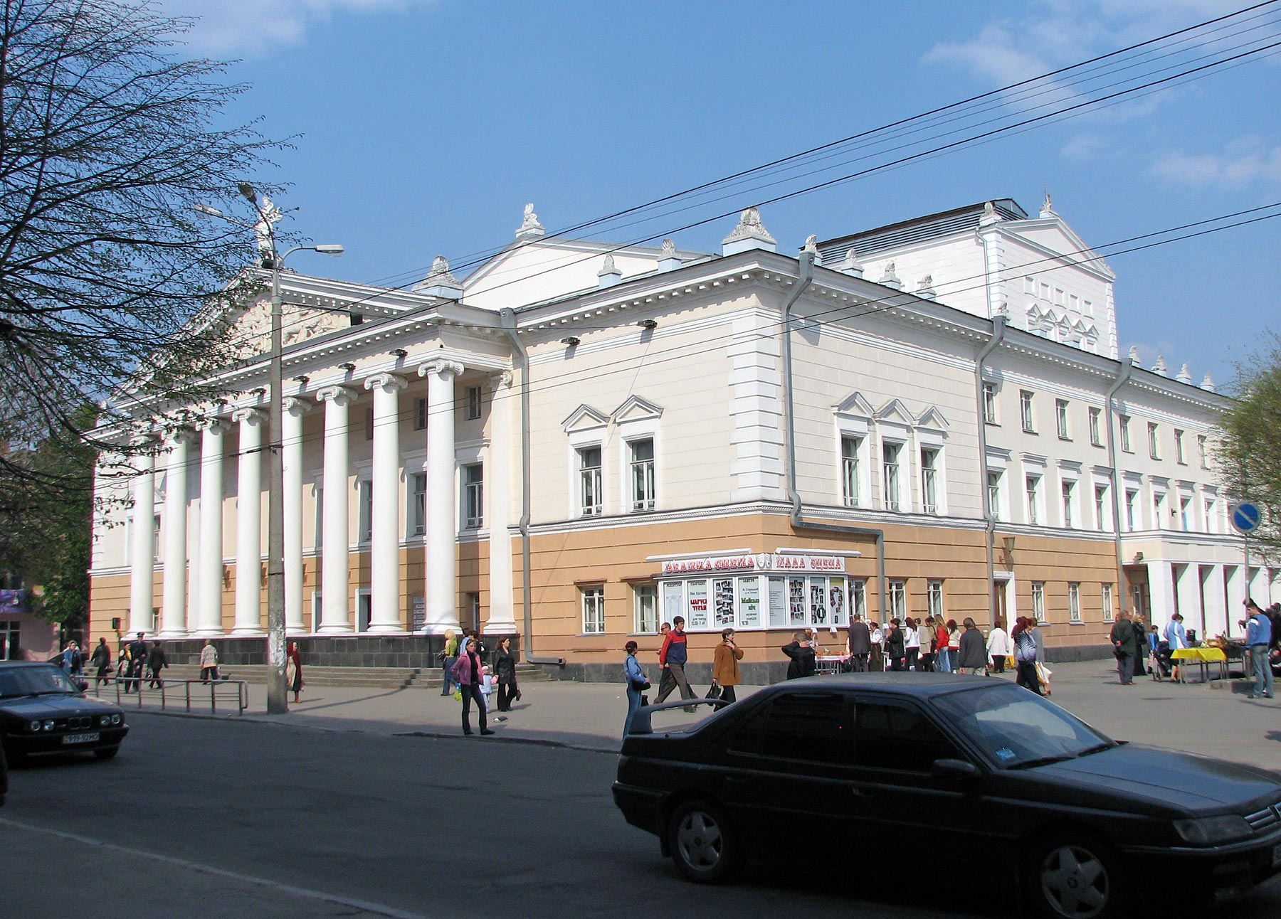 Dramatical theatre in Vinnytsia, Ukraine